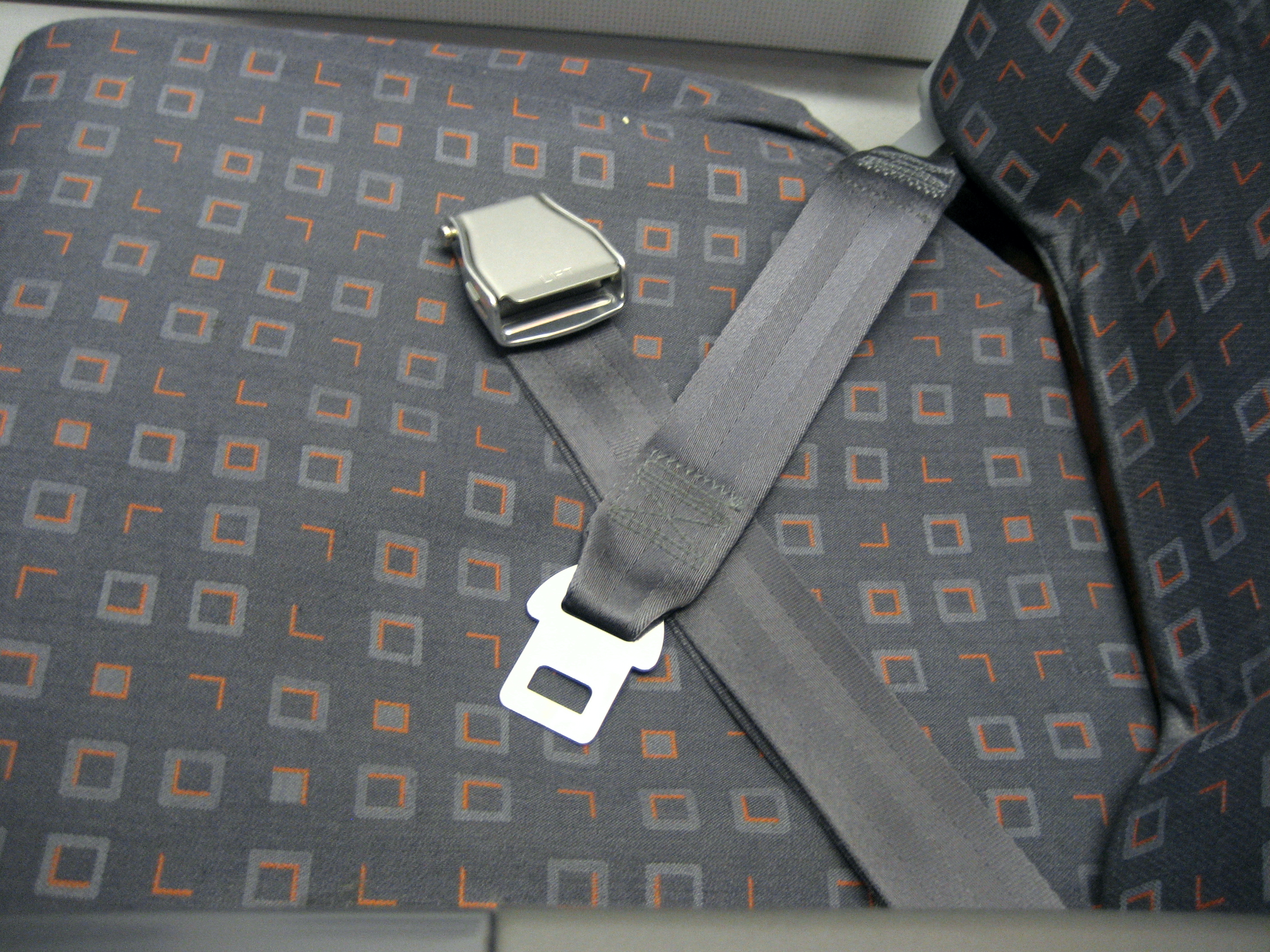 Seatbelt on an easyJet A319.